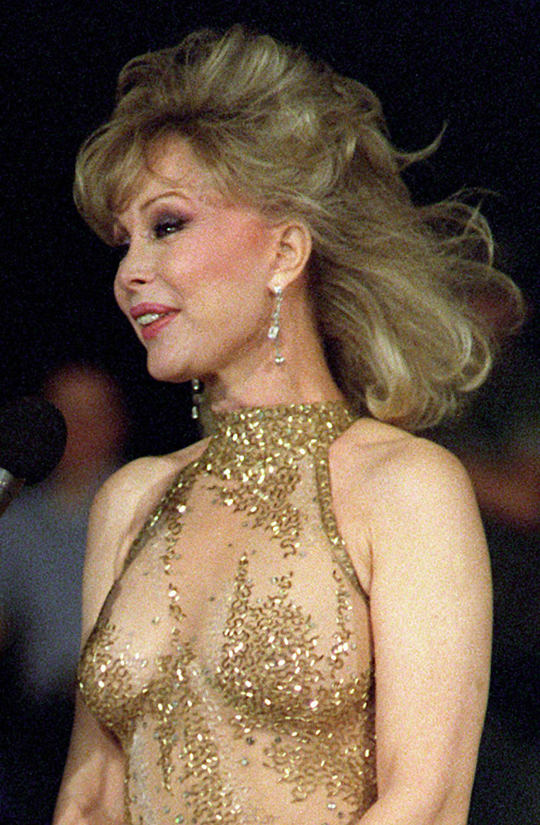 Actress Barbara Eden during a United Services Organization (USO) show aboard the amphibious assault ship USS OKINAWA (LPH-3).